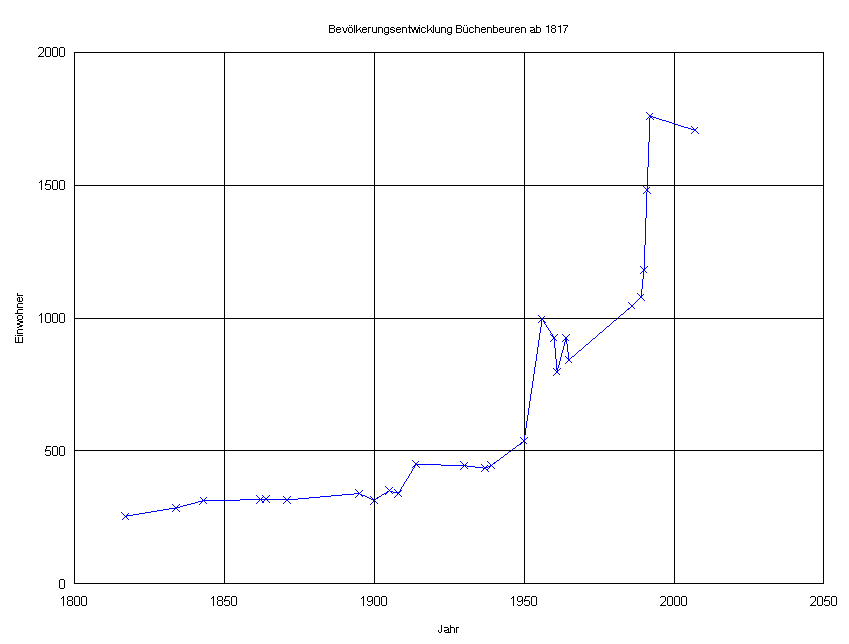 Population of Büchenbeuren / Germany from 1817 until now; data taken from: Chronik Büchenbeuren, Barbara Müller, Herausgegeben von der Ortsgemeinde Büchenbeuren 1993, ISBN 3-929866-00-5